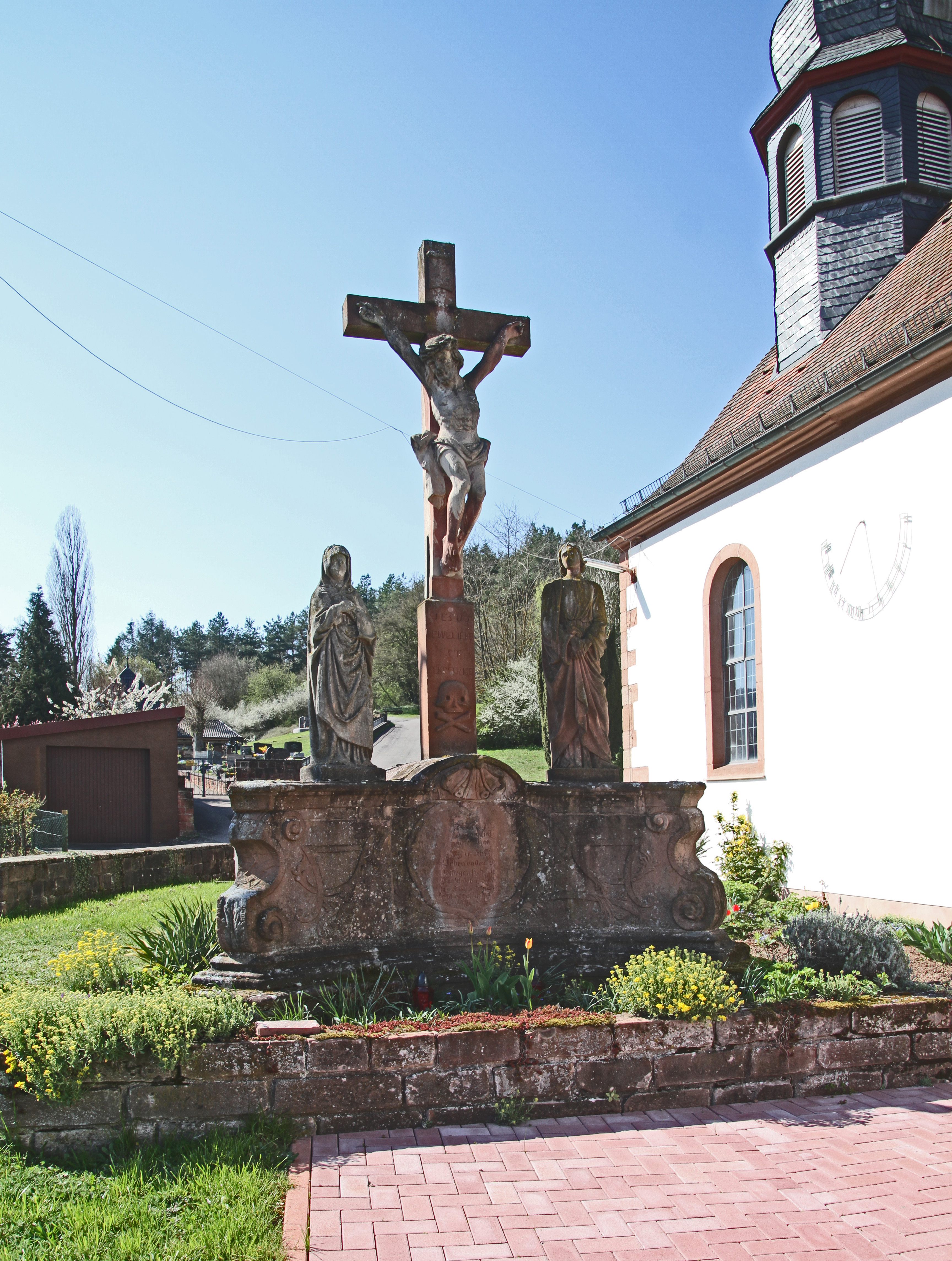 Church of Saint Wendelin in Waldhambach.